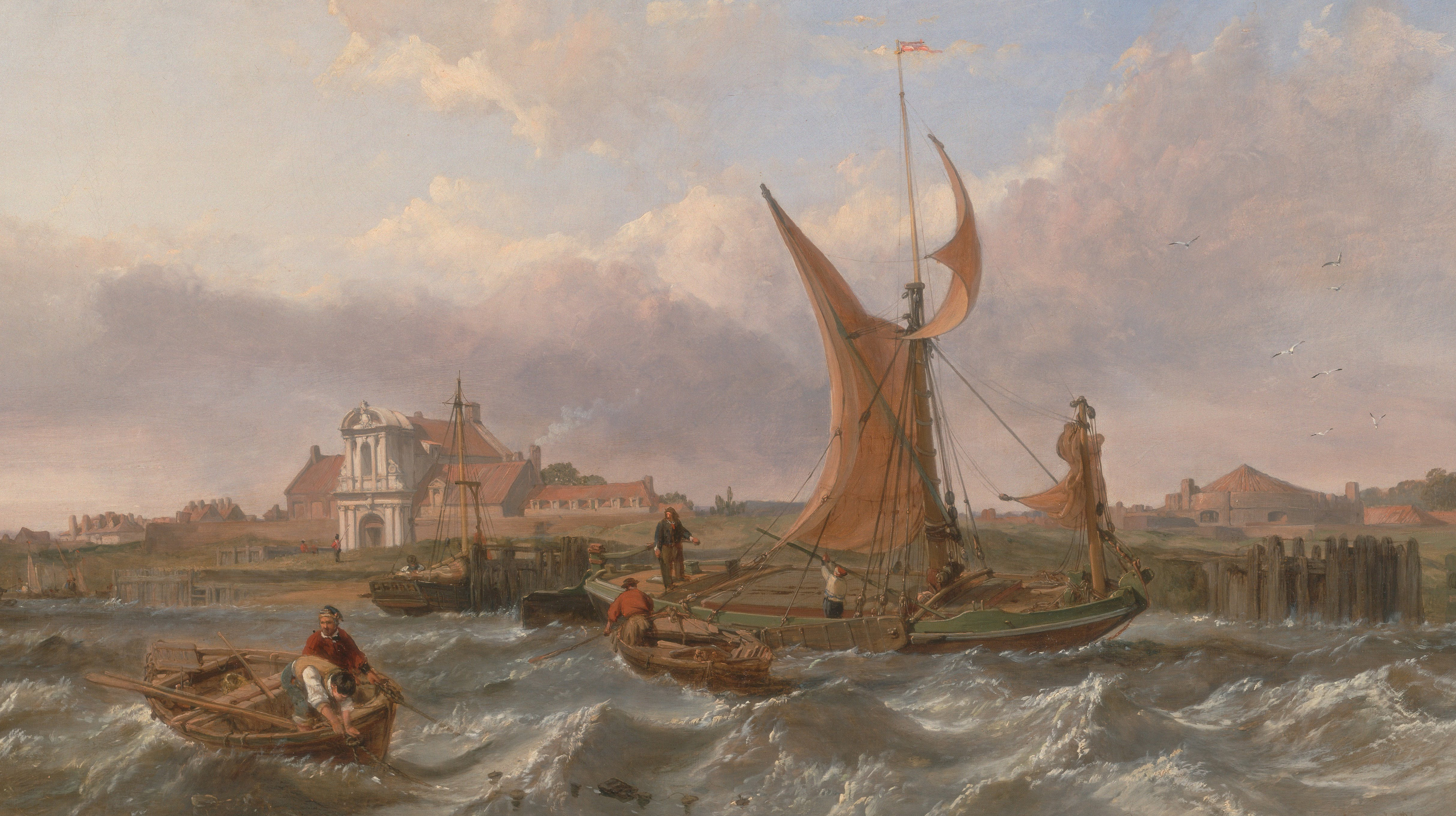 Cropped to show the two forts. Full details on original Wiki Commons page.